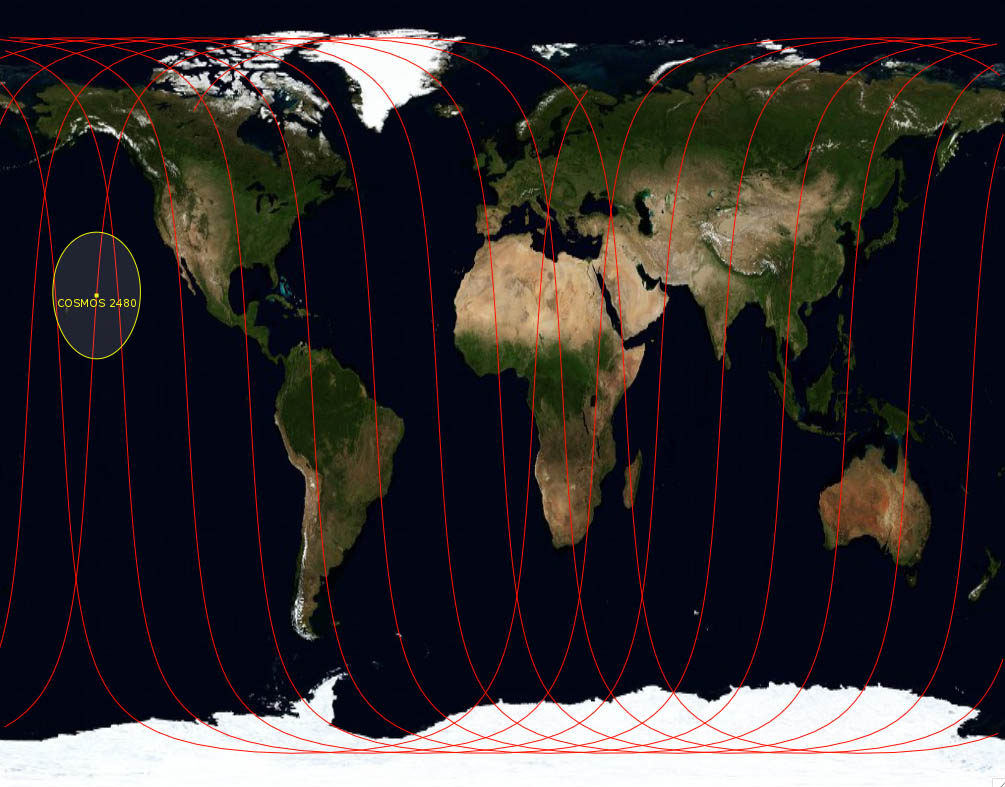 Ground track of Russian satellite Kosmos 2480. Plotted against a PD NASA map using GPL gpredict software.